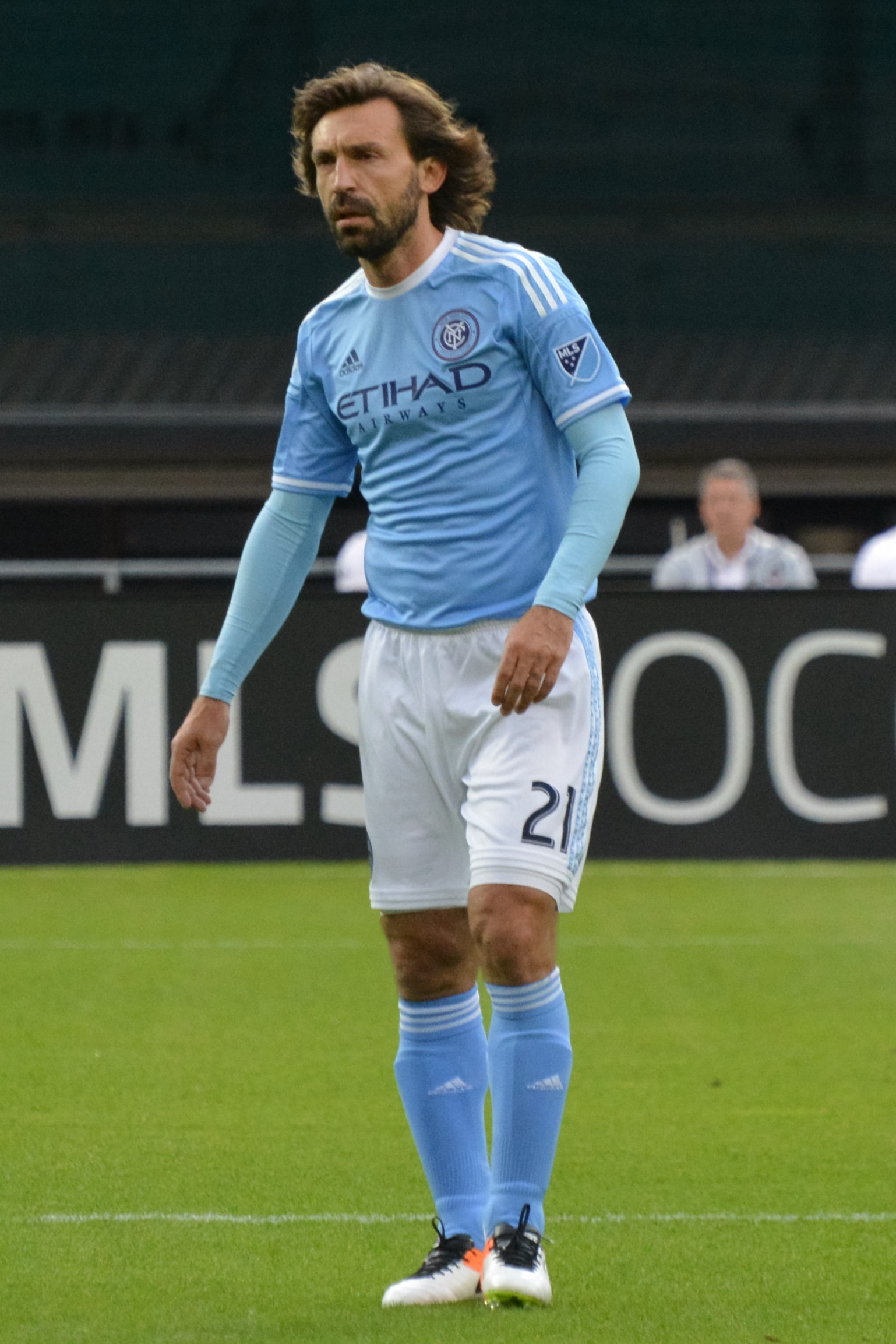 Andrea Pirlo playing for NYCFC